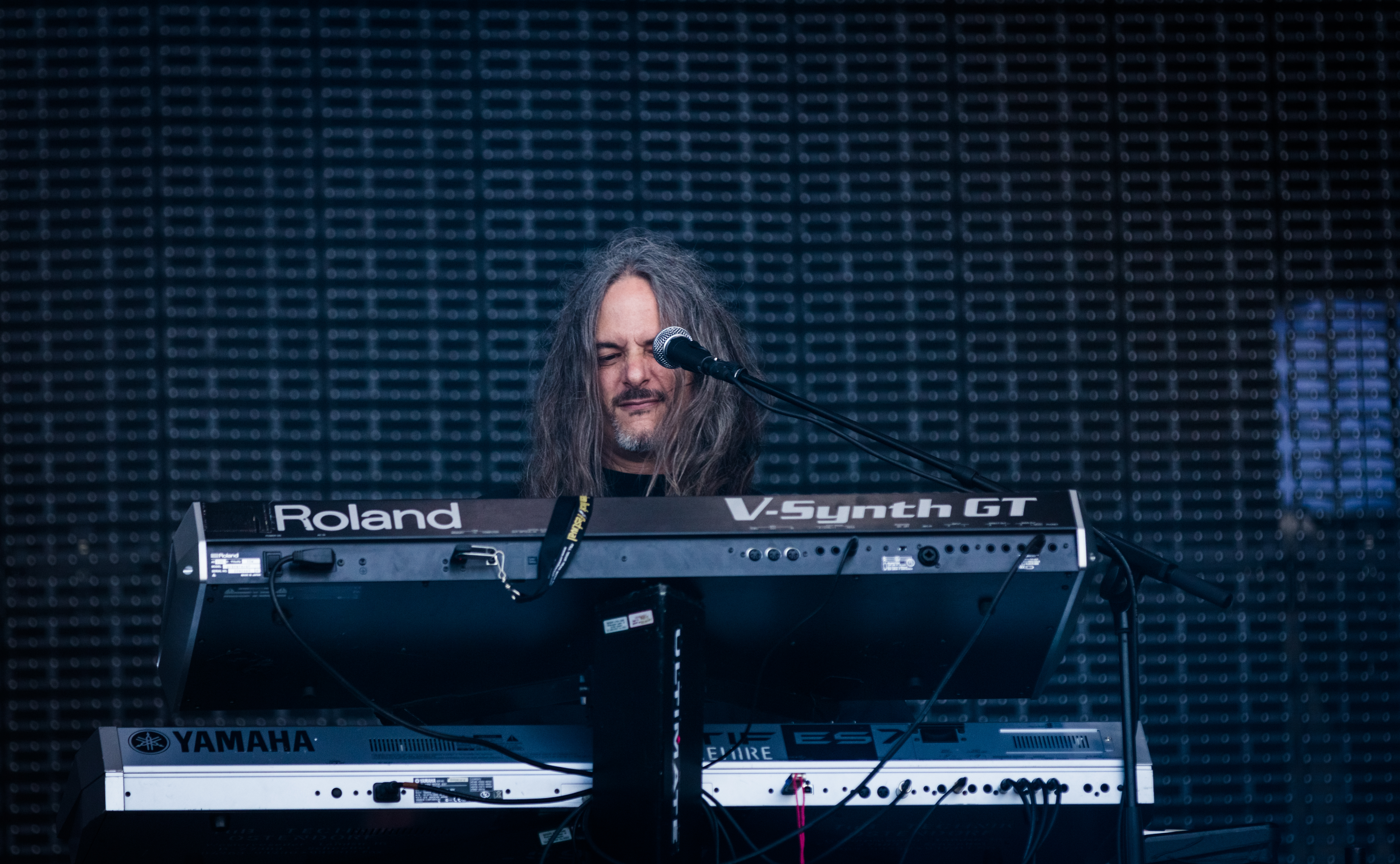 Symphony X - Wacken Open Air 2016